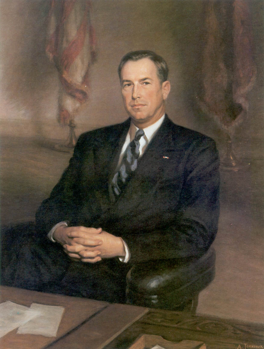 Kenneth Claiborne Royall, 1st United States Secretary of the Army